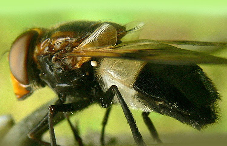 Description: Volucella pellucens is a hover-fly. It occurs in much of Europe, and across Asia to Japan.